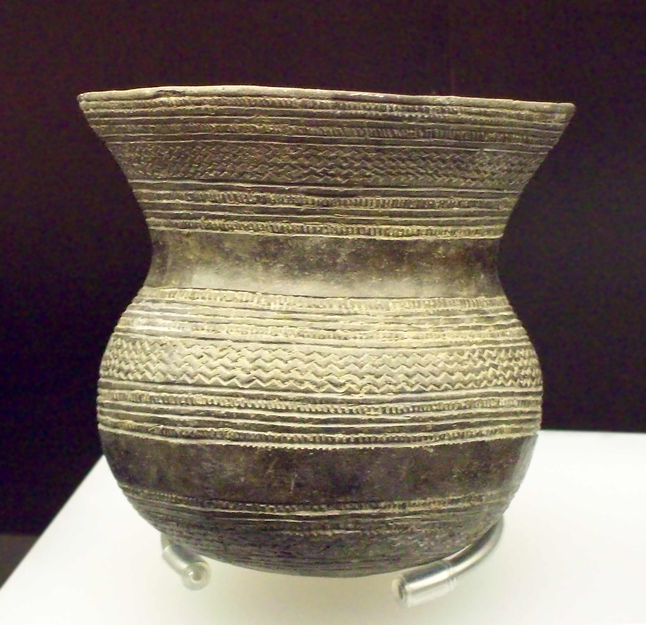 A Prehistoric earthenware vessel, part of a beaker-culture pottery group dated in the early Bronze Age. It was part of a funerary equipment.